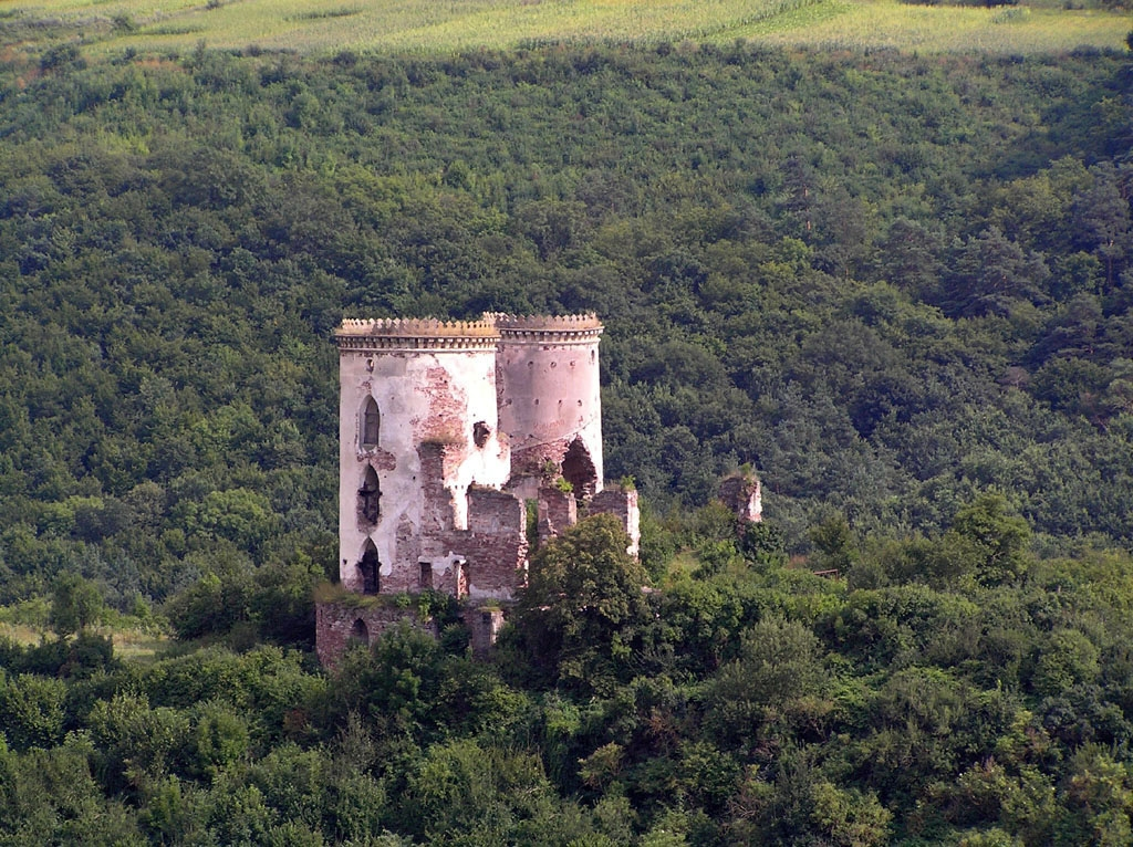 The ruins of Chervonohorod Palace